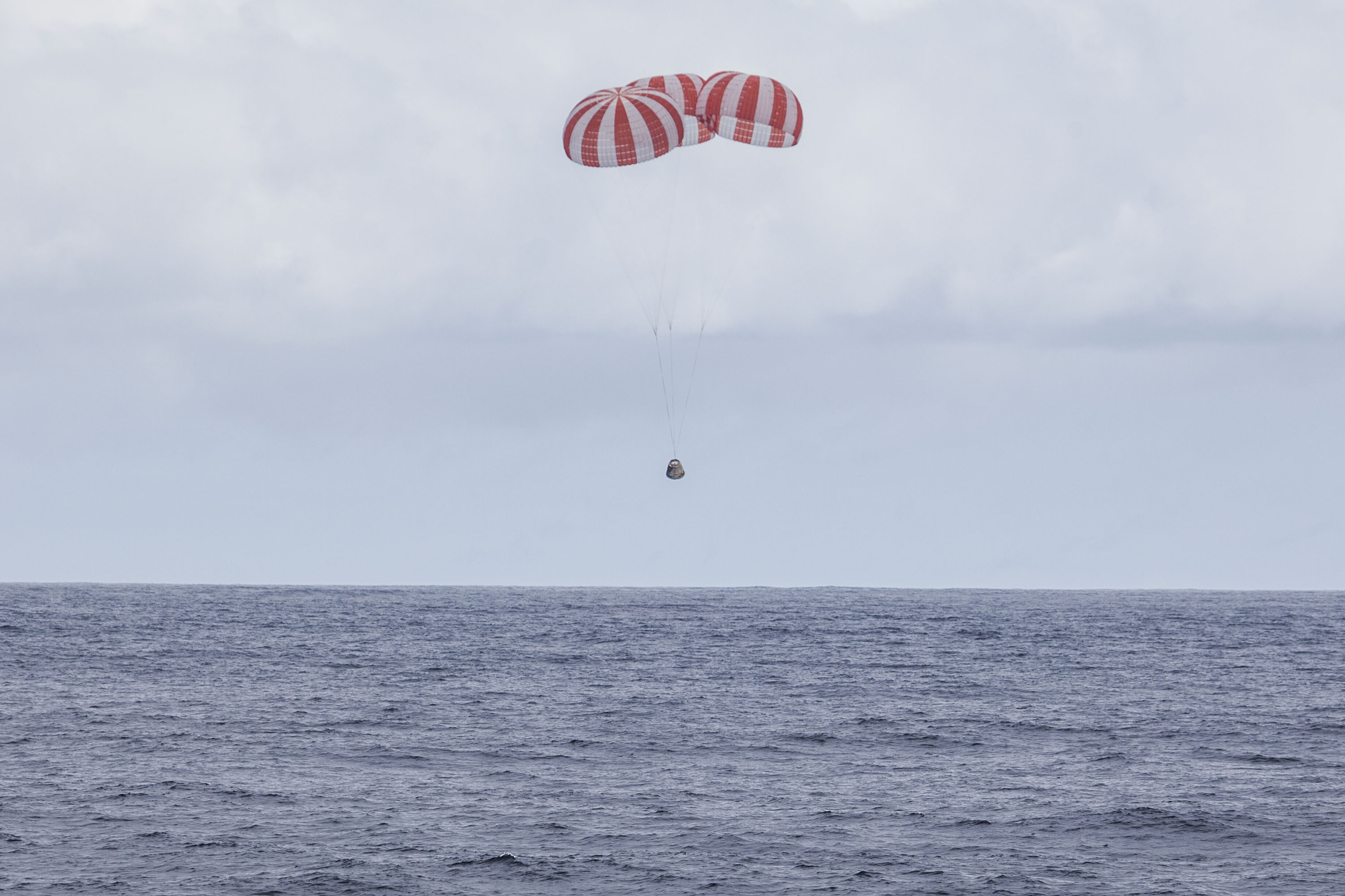 SpaceX’s Falcon 9 rocket and Dragon spacecraft launched from Launch Complex 40 at the Cape Canaveral Air Force Station, Florida, for their fourth official Commercial Resupply (CRS) mission to the orbiting lab on Sunday, September 21 at 1:52am EDT. Dragon returned to Earth with a parachute-assisted splashdown off the coast of southern California on October 25. Dragon is the only operational spacecraft capable of returning a significant amount of supplies back to Earth, including experiments.